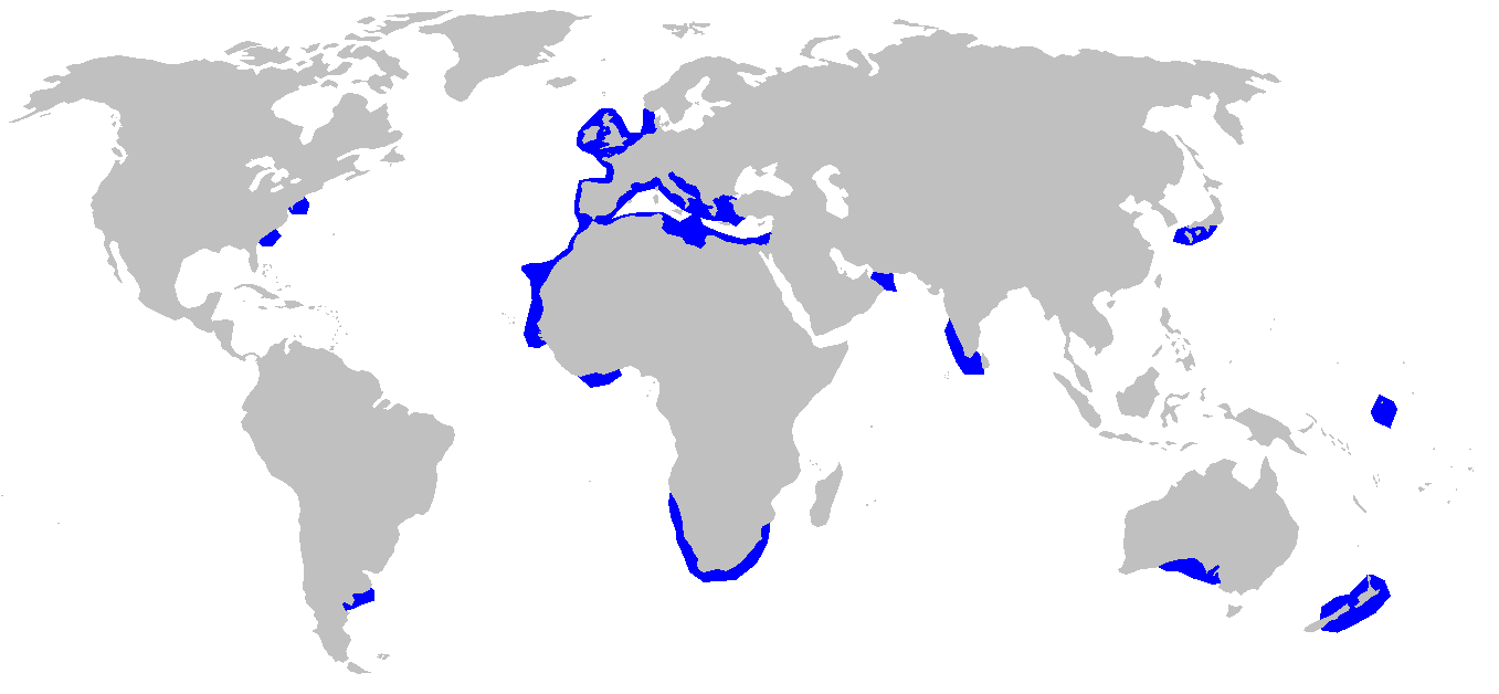 Distribution map for Echinorhinus brucus